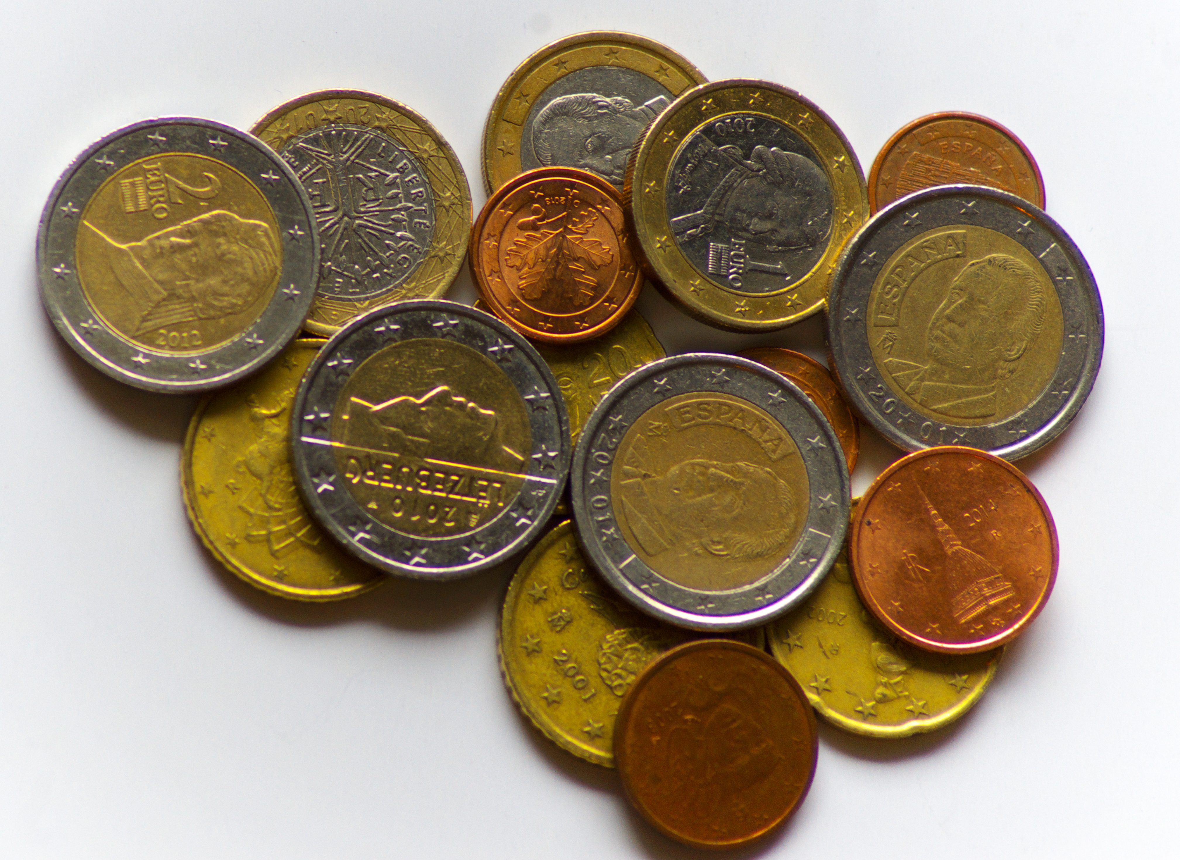 Euro coins